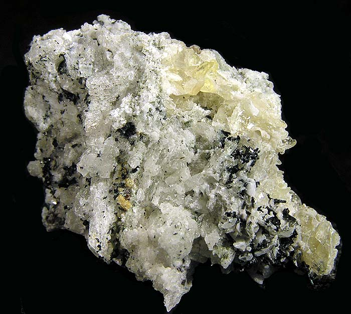 Haineaultite, Calcite Locality: Poudrette quarry (Demix quarry; Uni-Mix quarry; Desourdy quarry), Mont Saint-Hilaire, Rouville RCM, Montérégie, Québec, Canada (Locality at ) This specimen would be considered a very rich example because of the eye-visible wealth of bright , gemmy yellow crystals present; and comes with a label from Gilles Haineault showing that he collected it in April of 2000. The crystals are not sparse at all and a whole seam of them is easily seen without needed visual aid. The piece has several EXCEPTIONALLY large crystals including one partially embedded crystal of approx. 5mm . BETTER IN PERSON! 3.5 x 2.4 x 1.8 cm